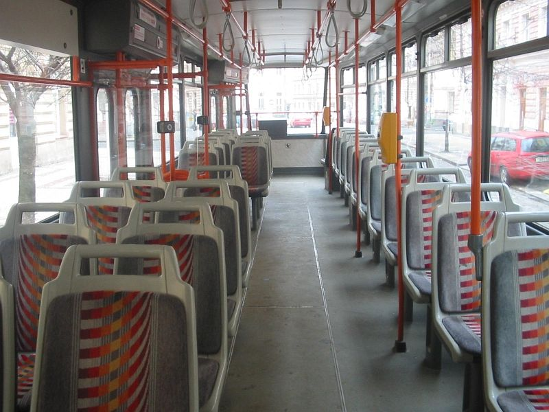 Interior of tram T6A5 in Prague